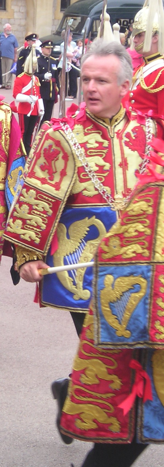 David White, Somerset Herald, after the annual service of the Order of the Garter at St George's Chapel, Windsor Castle.